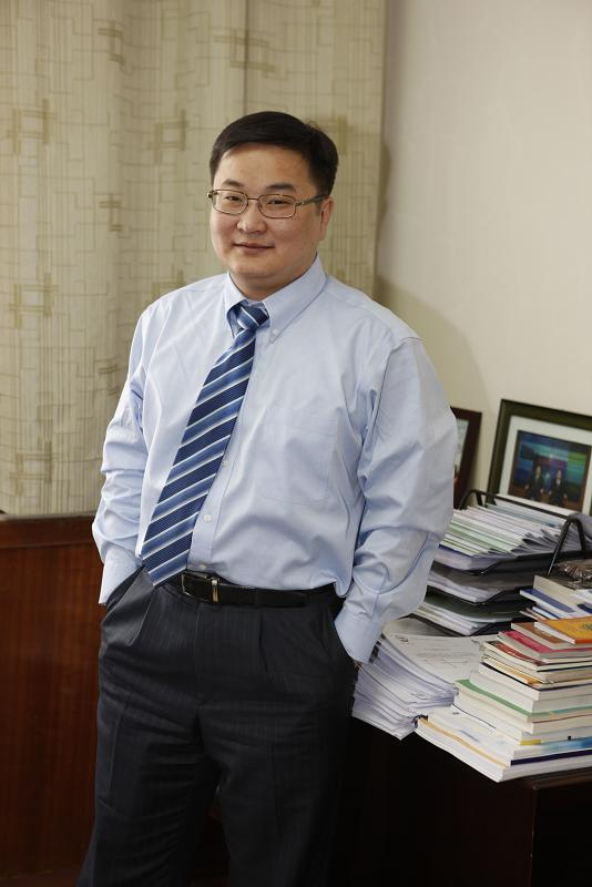 Sukhbaatar Jamiyankhorloo